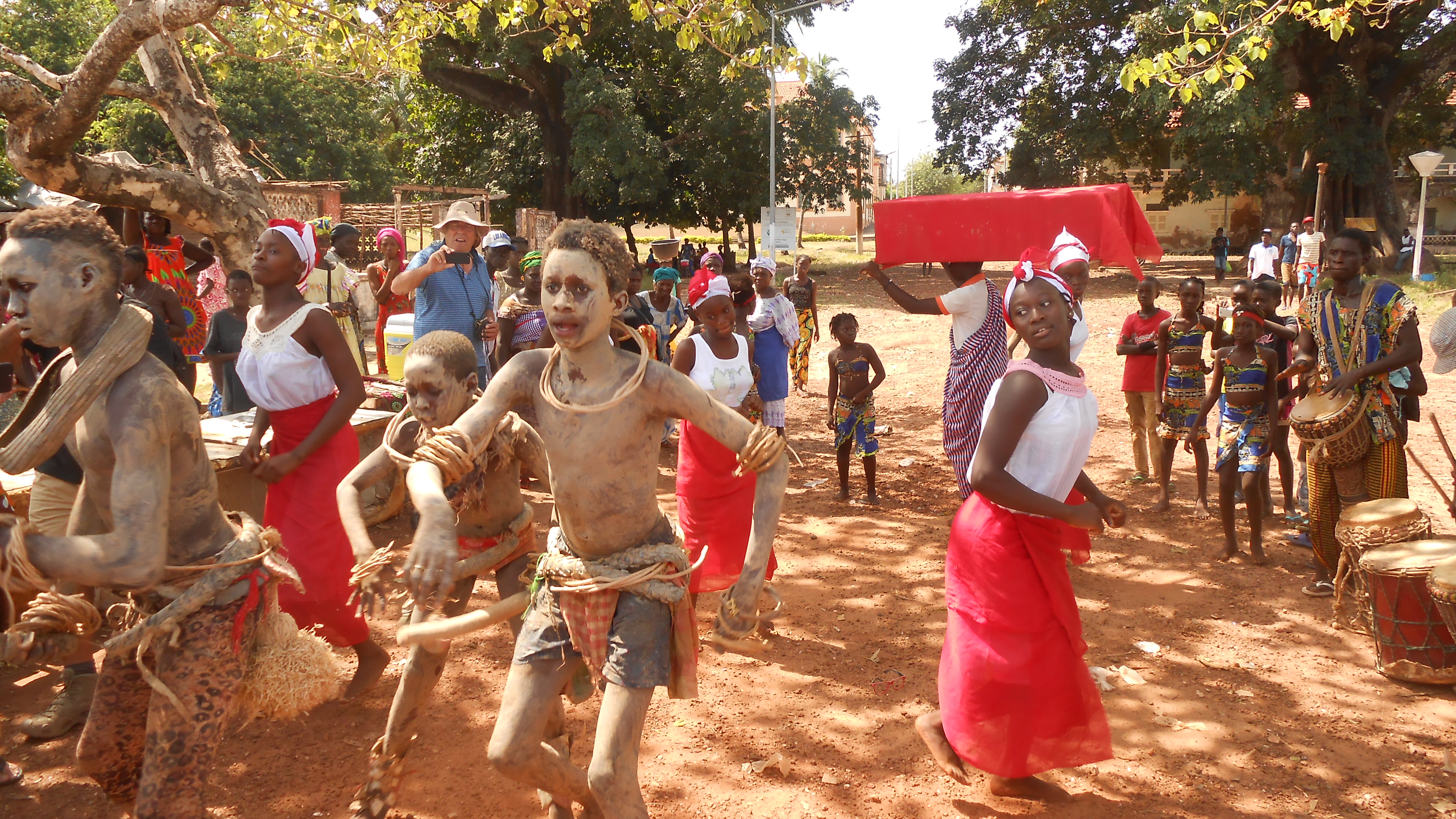 The cultural association Grupo Cultural Bolama Nobo acting at the port of Bolama in 2017, november the 9th, when a group of portuguese tourist visited the city. That tour visit throughout the country, organised by portuguese agency Pinto Lopes Viagens, was the first package holiday tour to Guinea-Bissau